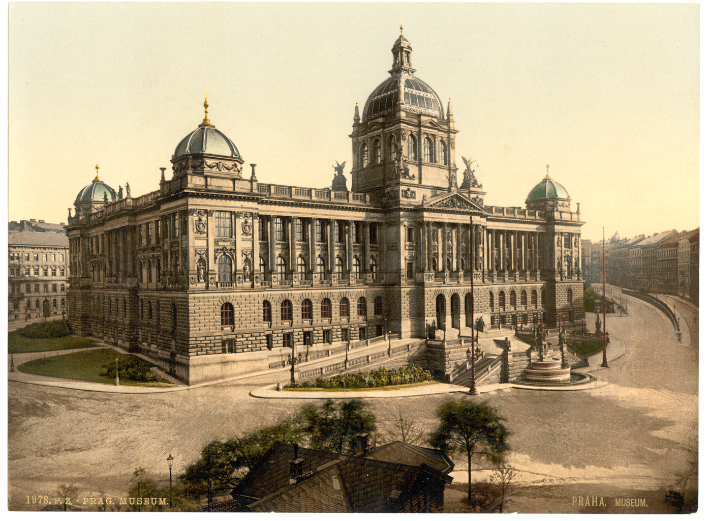 The National Museum of what is now the Czech Republic was founded in 1818 by Count Kašpar Maria Sternberg (1761-1838), an early scholar in the field of paleontology. The museum’s collections include millions of objects in the fields of natural history, history, art, and music. The main building, pictured here, was completed in 1891. It is located at the upper end of Wenceslas Square, one of the main squares in the city of Prague. The square is named for Saint Wenceslas, the patron saint of Bohemia. Castles and palaces; Museums